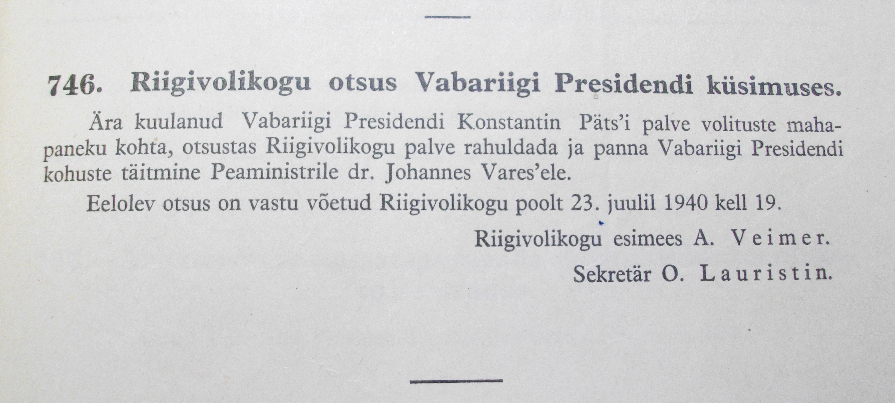 scan from Riigi Teataja